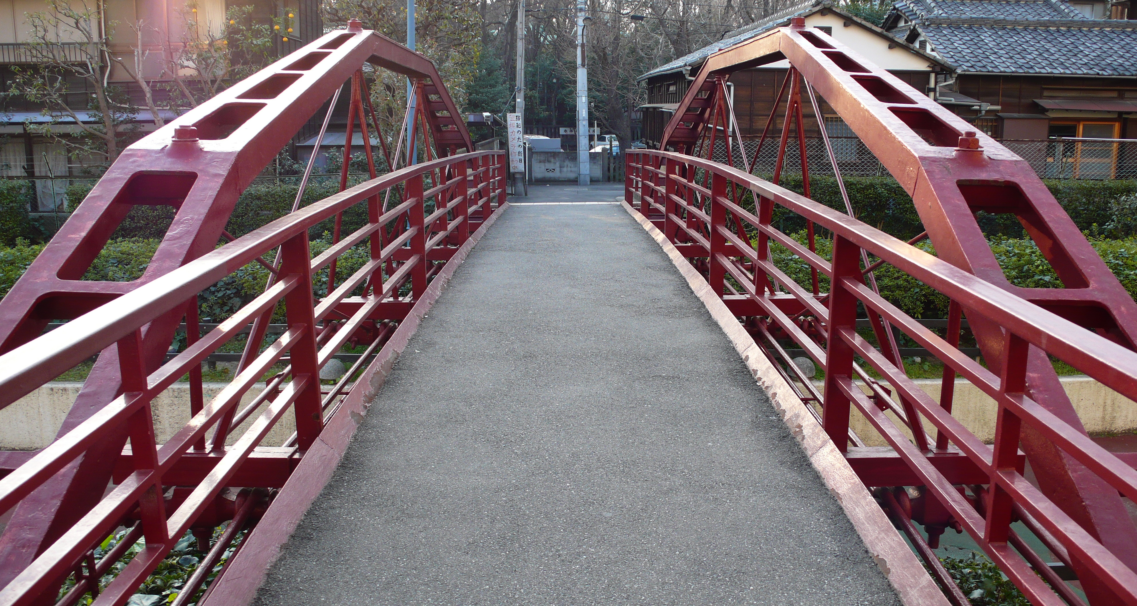 Hachiman-bashi Bridge